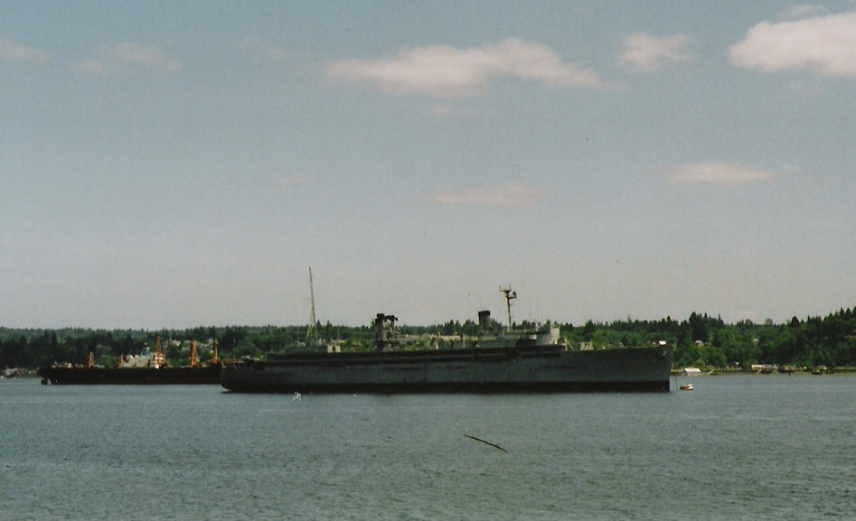 The decommissioned U.S. Navy repair ship USS Ajax (AR-6) mothballed at Bremerton, Washington (USA), in June 1989.